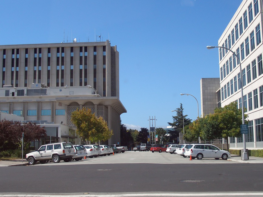 San Mateo County Government Center in Redwood City. The perspective is westbound on Bradford Avenue at Middlefield Road.